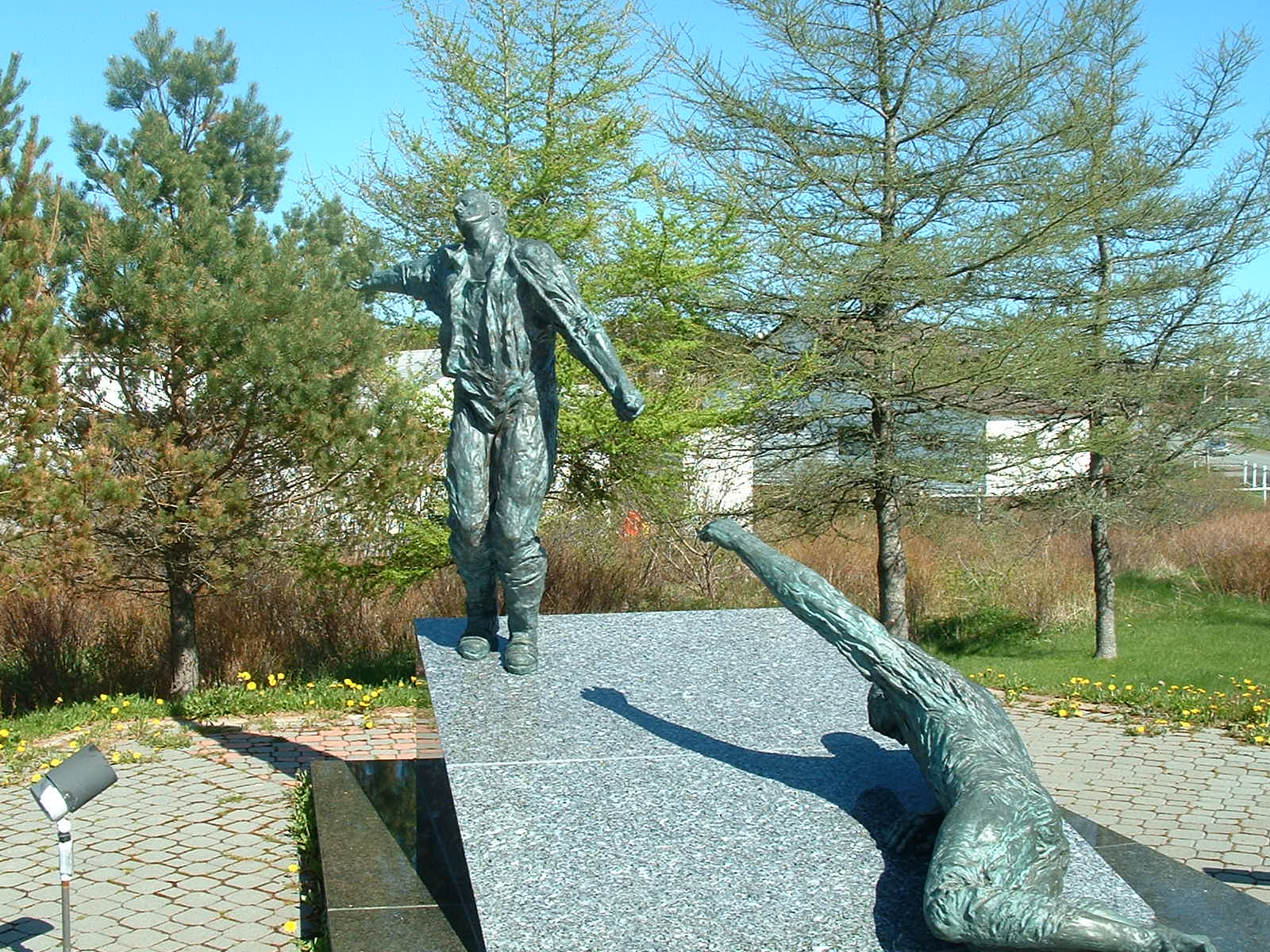 Picture of 'Echoes of Valour' memorial, dedicated to (1) the mining industry in St. Lawrence, Newfoundland and Labrador, (2) the sailors who died in the U.S.S. Truxtun & U.S.S. Pollux disaster on February 18, 1942 at Chambers Cove and Lawn Point, and (3) those who lost their lives in the world wars.